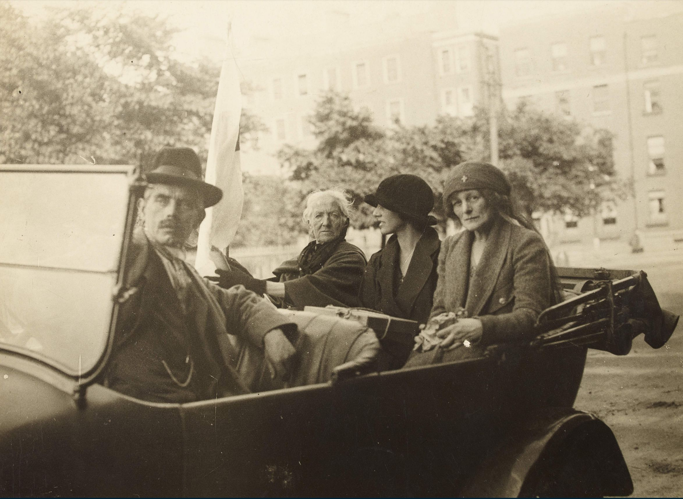 Maud Gonne McBride (far right) on duty with a relief agency in Dublin during the Irish Civil War. 4 July 1922. (National Library of Ireland listing for this image records the relief agency as the Red Cross. Might also have been the White Cross - of which Maud Gonne was a member). National Library of Ireland (NLI) Ref#: HOG197